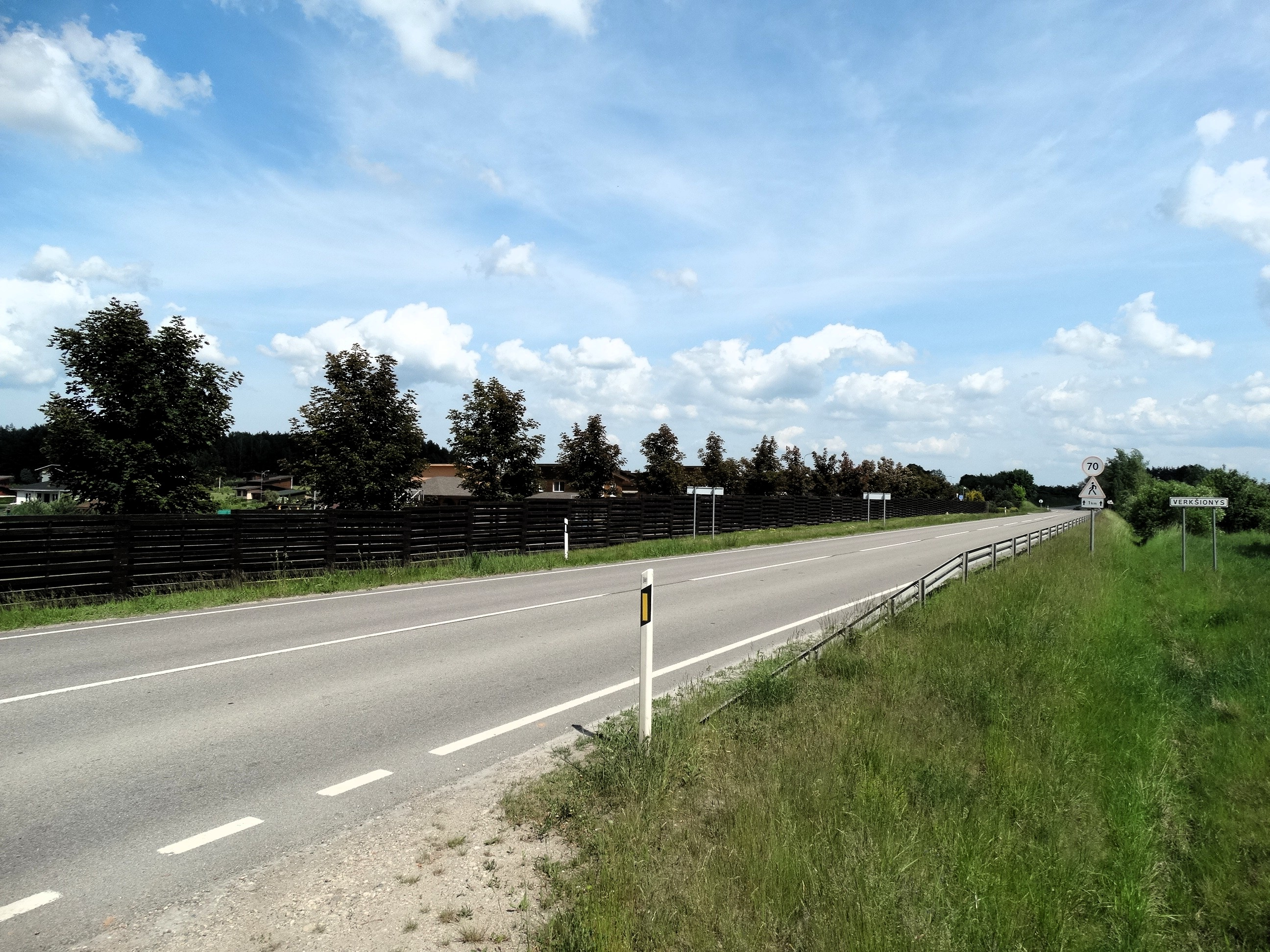 Verkšionys, Vilnius District, Lithuania